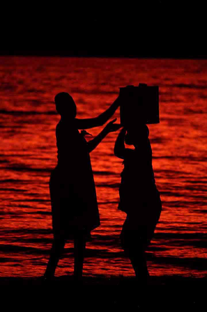 It was before sunrise on Lake Malawi, Africa's third largest freshwater lake. It runs deep - part of the Rift Vally fault. The pre-sunrise sky reflected blood red on the crystal waters of the lake. Villagers were already up, starting their daily chores. Here one woman helps her friend raise a bucket of water drawn from the lake. What a photogrpaher's dream come true! Nikon FM2 / 200mm Nikon lens